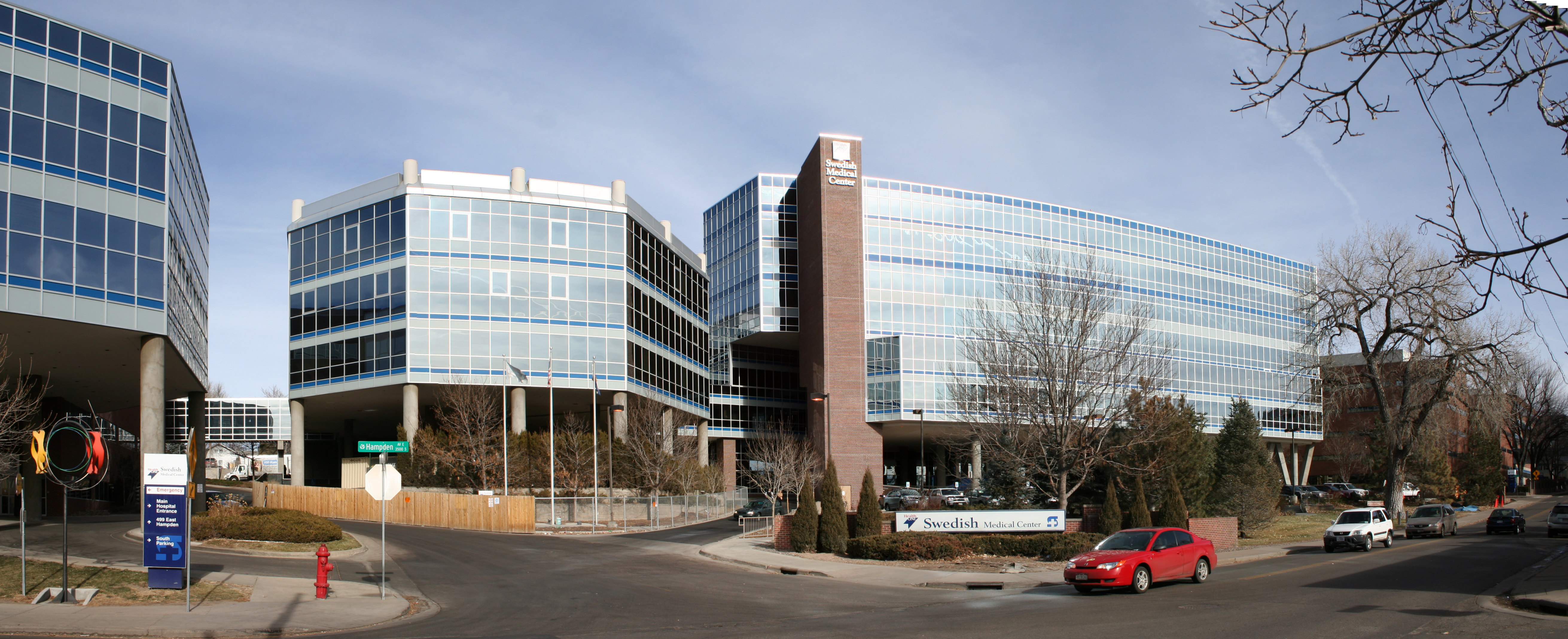 Swedish Medical Center in Englewood, Colorado